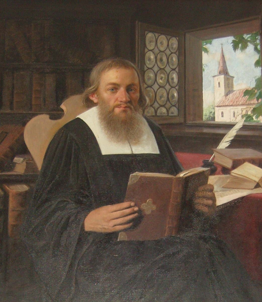 The portrait of lutheran superintendent Daniel Krman in lutheran church in Myjava, Slovakia.